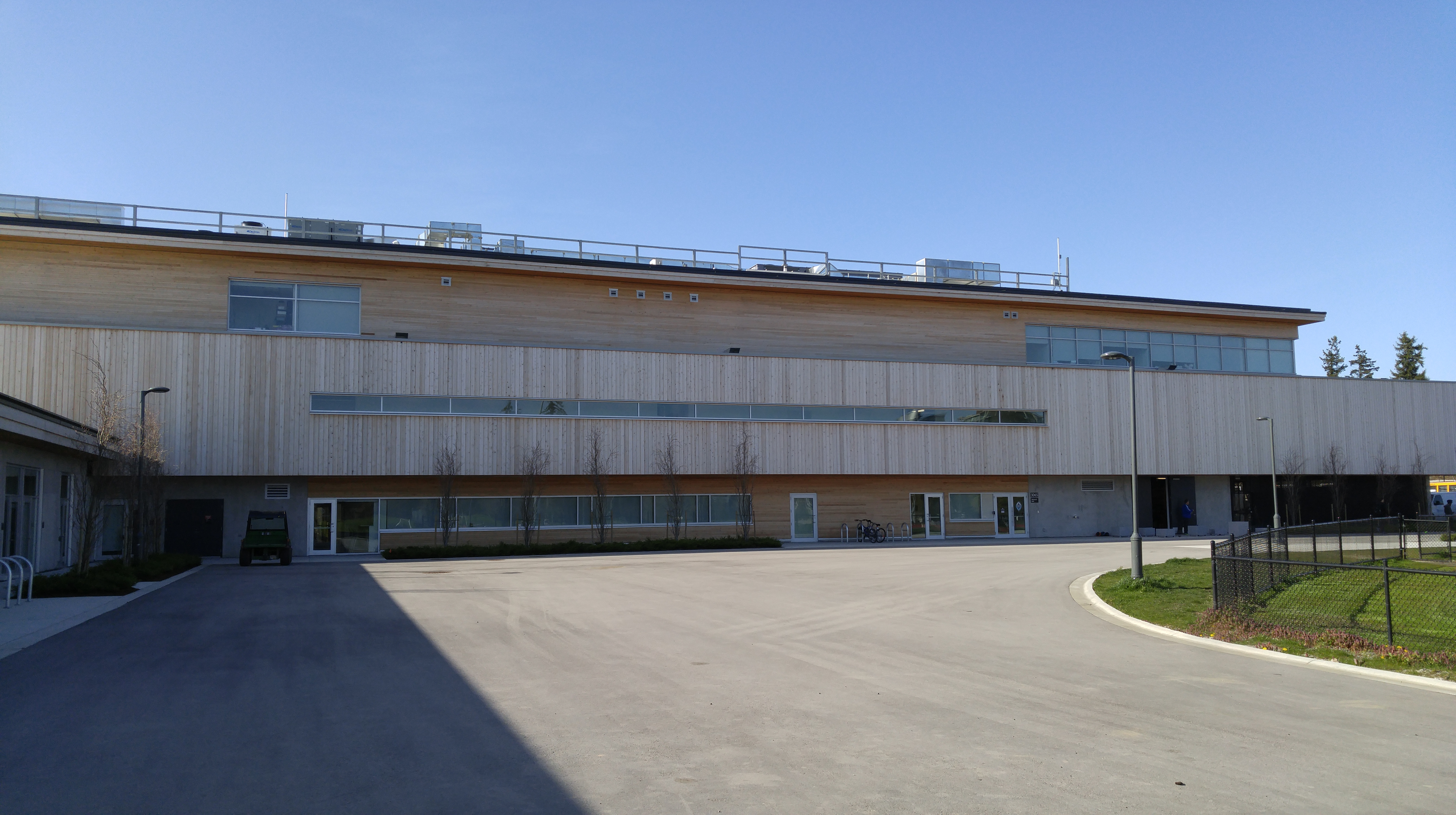 Whitecaps national training center on the grounds of the University of British Columbia